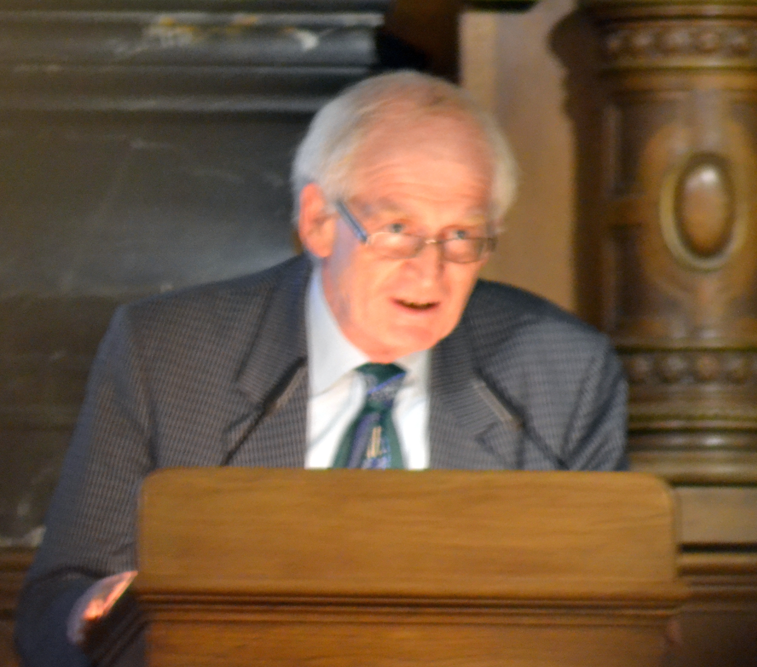 French classical archaeologist and science historian Alain Schnapp at the Old Aula of the University of Heidelberg.